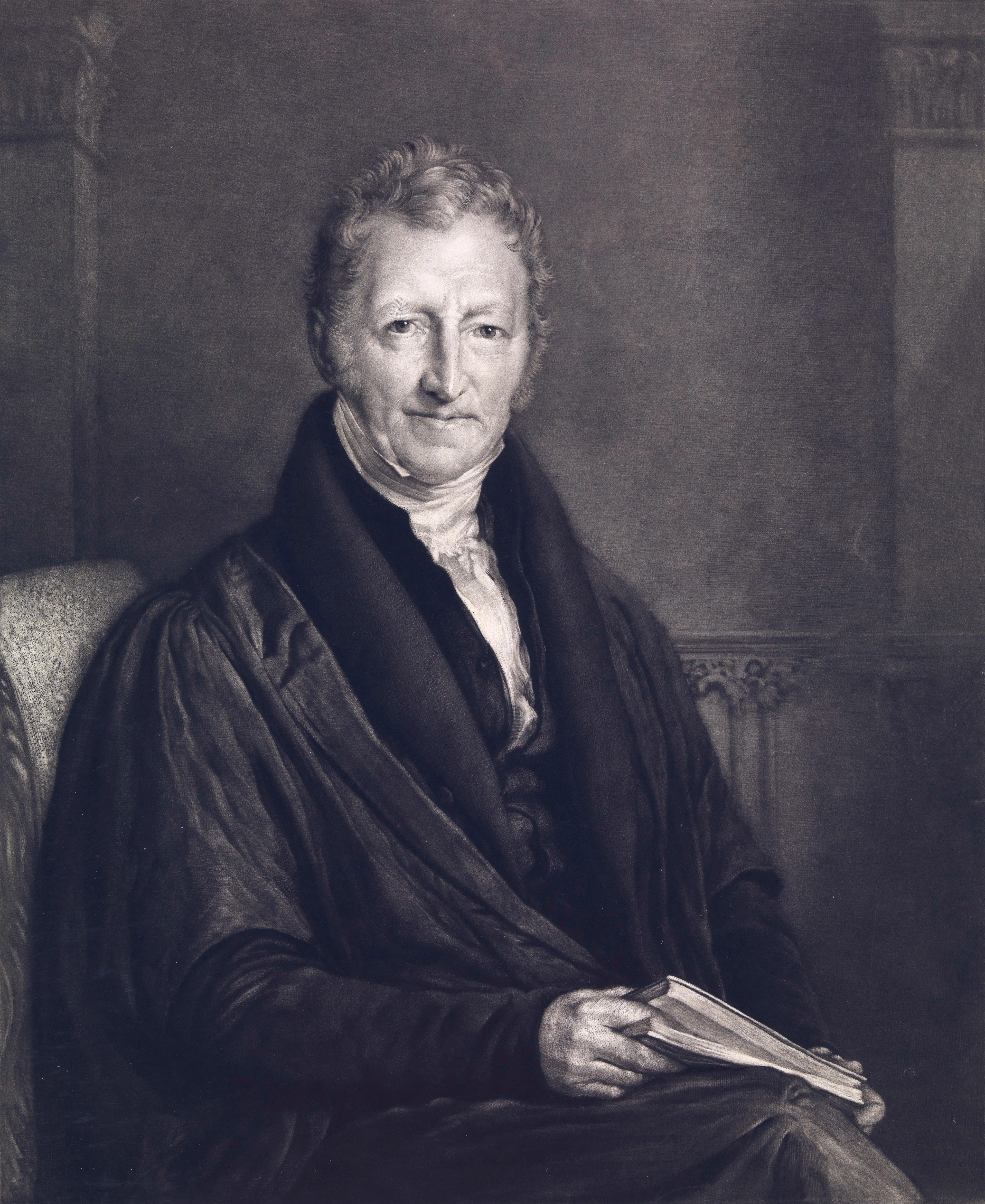 Thomas Robert Malthus. Iconographic Collections Keywords: T. R. Malthus; John Linnell